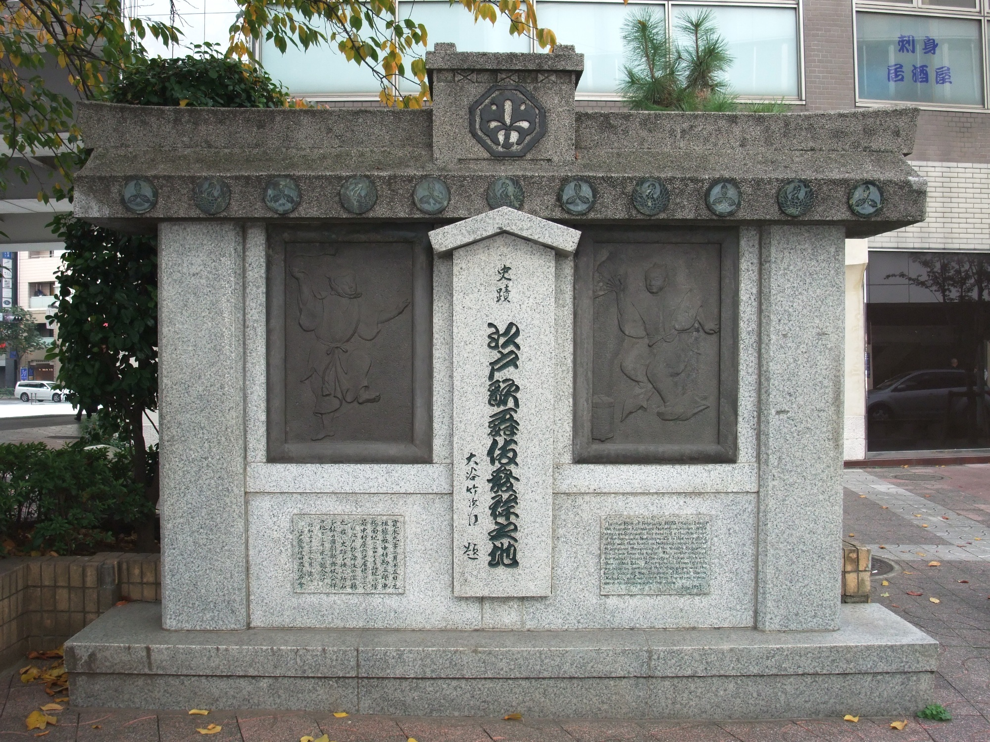 Monument of Saruwaka-za (later as Nakamura-za), the birthplace of Edo Kabuki in Chuo, Tokyo